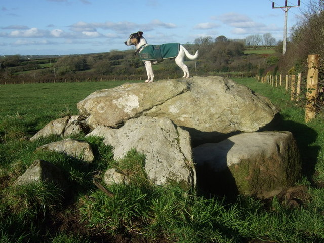 Parc-y-Llyn burial chamber This is the main visible part of what is considered to have possibly been a double burial chamber with the other part to the east (right). There is a capstone here barely supported by the remains of 4 uprights. Scattered stones roundabout indicate considerable disturbance: the monument is not fenced off. Beyond, the field runs down to the road and further away to the northwest lies the Garne Turne burial chamber.